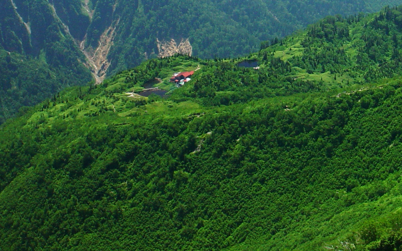 Kagamidaira and mountain hut (Kagamidaira-sansō), in Takayama, Gifu prefecture, Japan.